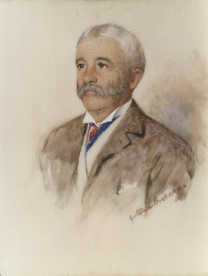 Portrait of Robert Gilmour Leckie (1833 – 1914), Canadian major and mining engineer.